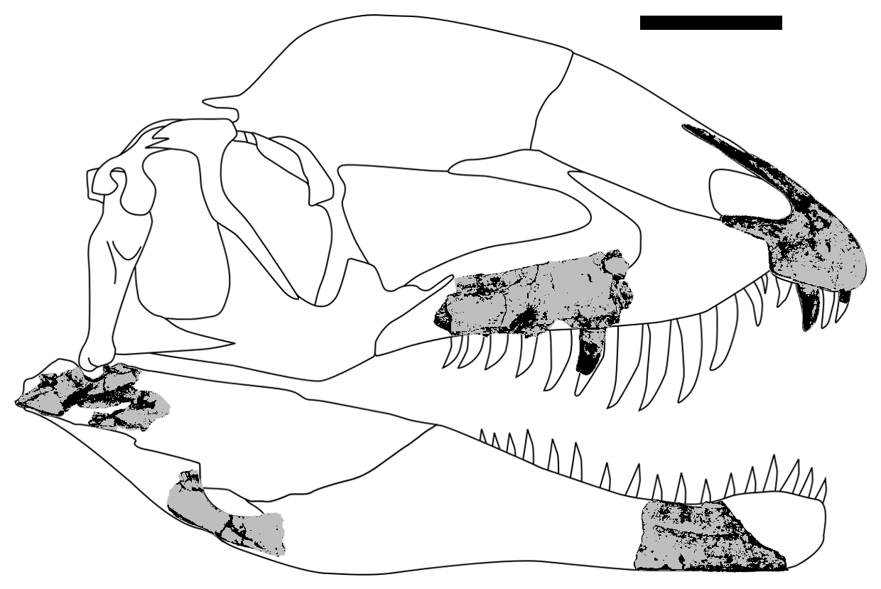 Dracovenator regenti material from South Africa, modified from Yates 2005 placed in a skull reconstruction based on Dilophosaurus skull described by Welles 1984. Scale bar = 10cm.[1][2] ↑ Welles, Samuel P. (1984): Dilophosaurus wetherilli (Dinosauria, Theropoda) Osteology and Comparisons. Palaeontographica Abt. A, Vol. 185 pp. 85-180 ↑ Yates, Adam M. (2005): A new theropod dinosaur from the Early Jurassic of South Africa and its implications for the early evolution of theropods. Palaeontologia Africana, Vol. 41 pp. 105-122 Dracovenator regenti